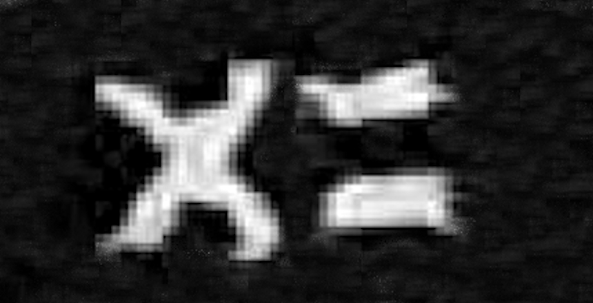 Kankali Tila inscription of Sodasa date portion